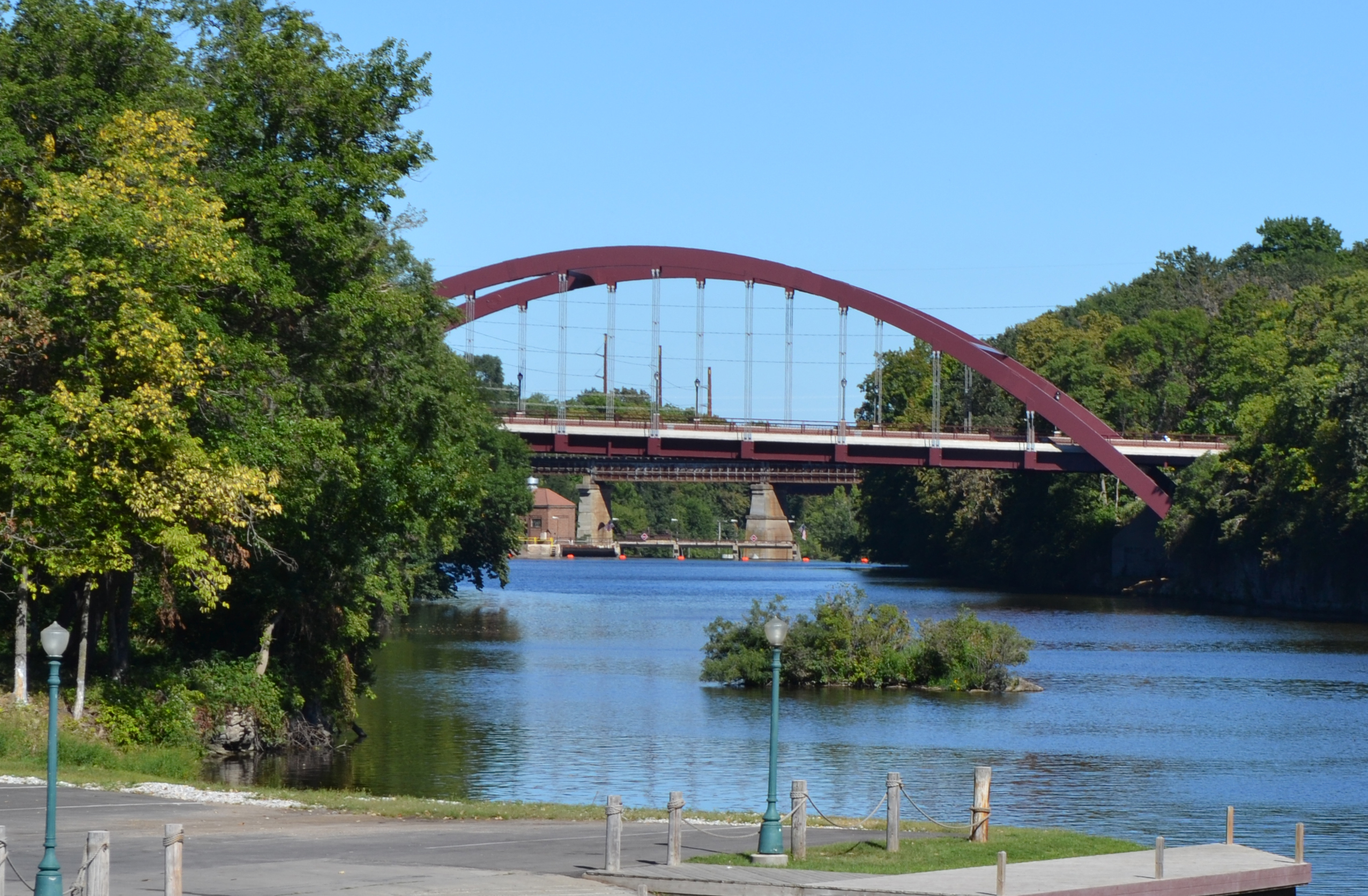 2010 bridge which replaced a 1928 bridge.